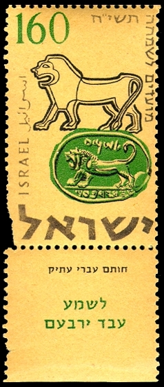 Joyous Festivals 5718 stamp - 160 mil - Ancient Hebrew seals from the time of the Kings of Israel. Inscription on tab: "Ancient Hebrew seal", translation from seal: "To Shema servant of Yerobeam".